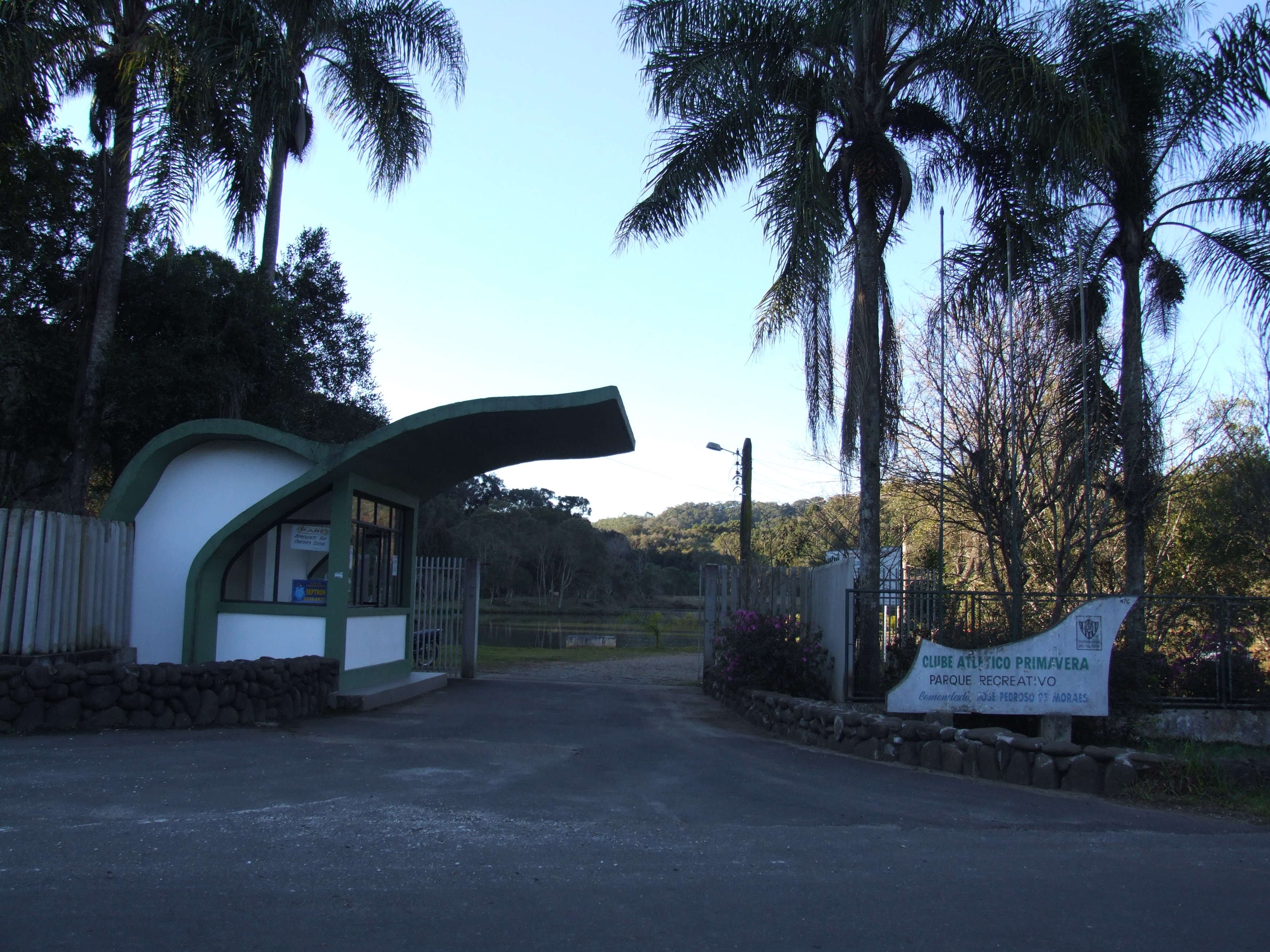 Primavera Athletic Club Headquarters in Almirante Tamandaré countryside, Paraná, Brazil